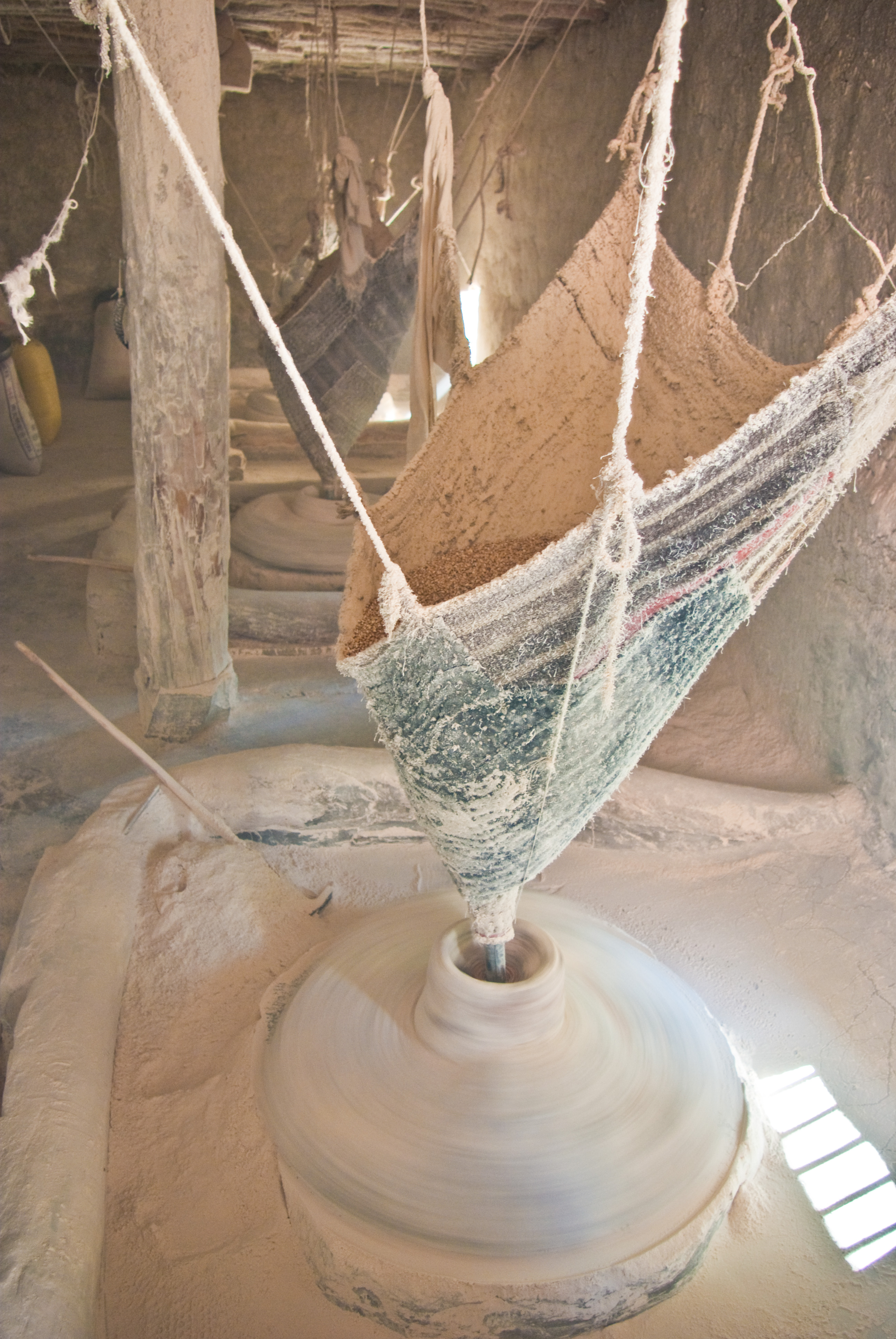 A watermill in Tibet